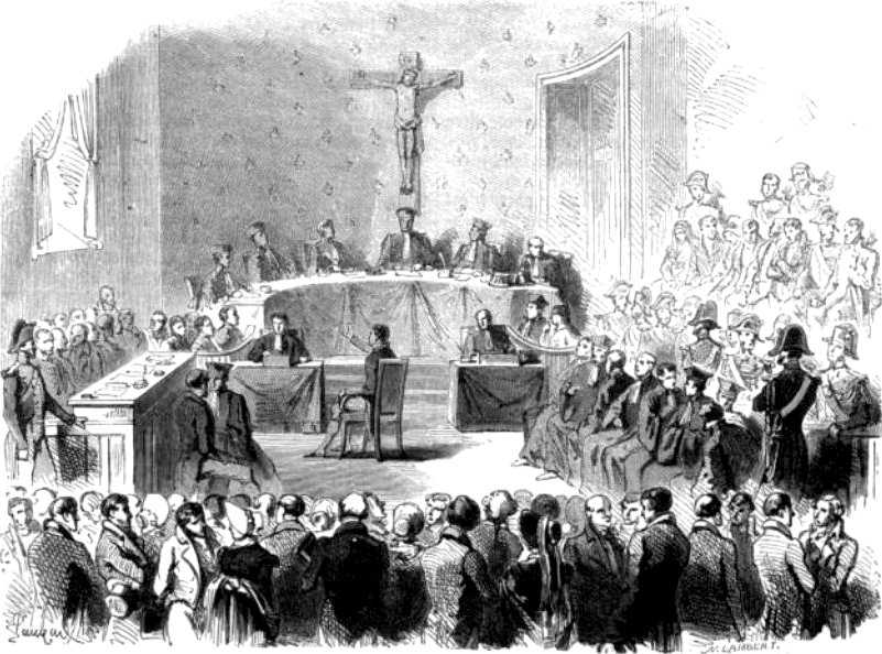 The Fualdès Affair